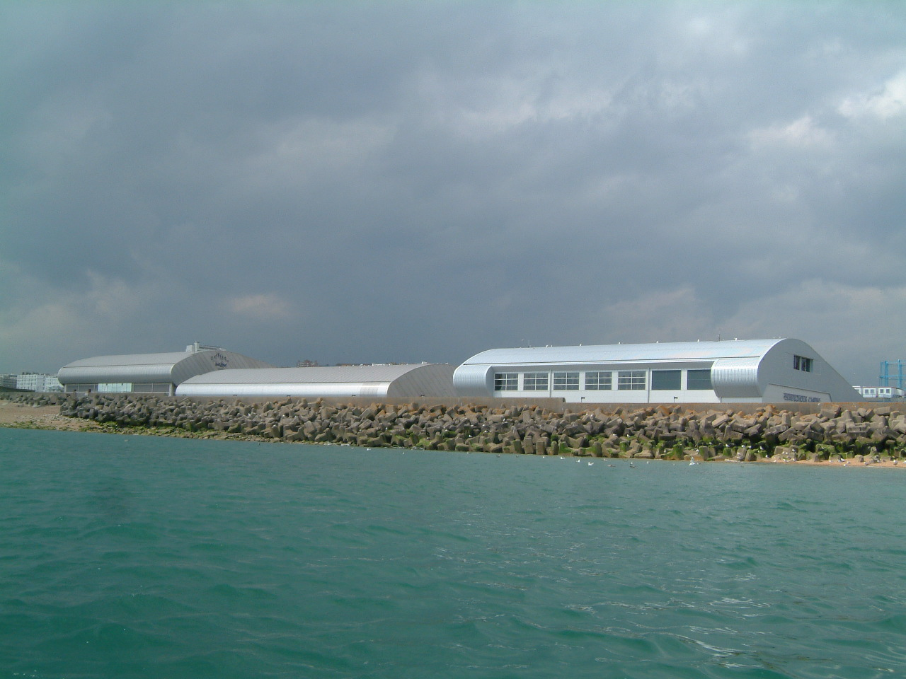 The new Marina at Brighton. I would not have thought airofoil shape roofs were a good idea in such a windy place!